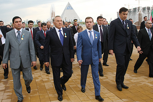 NUR-SULTAN. During a tour of the city. With heads of state invited to the 10th anniversary of Nur-Sultan celebrations.